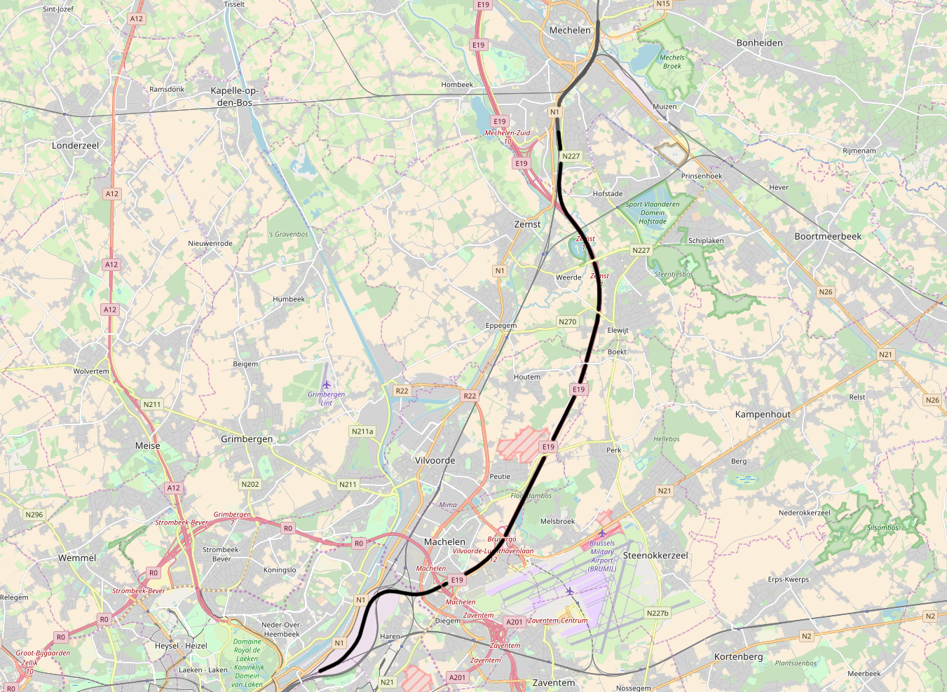 Belgian Railway Line 25N, Y Albertbrug - Mechelen